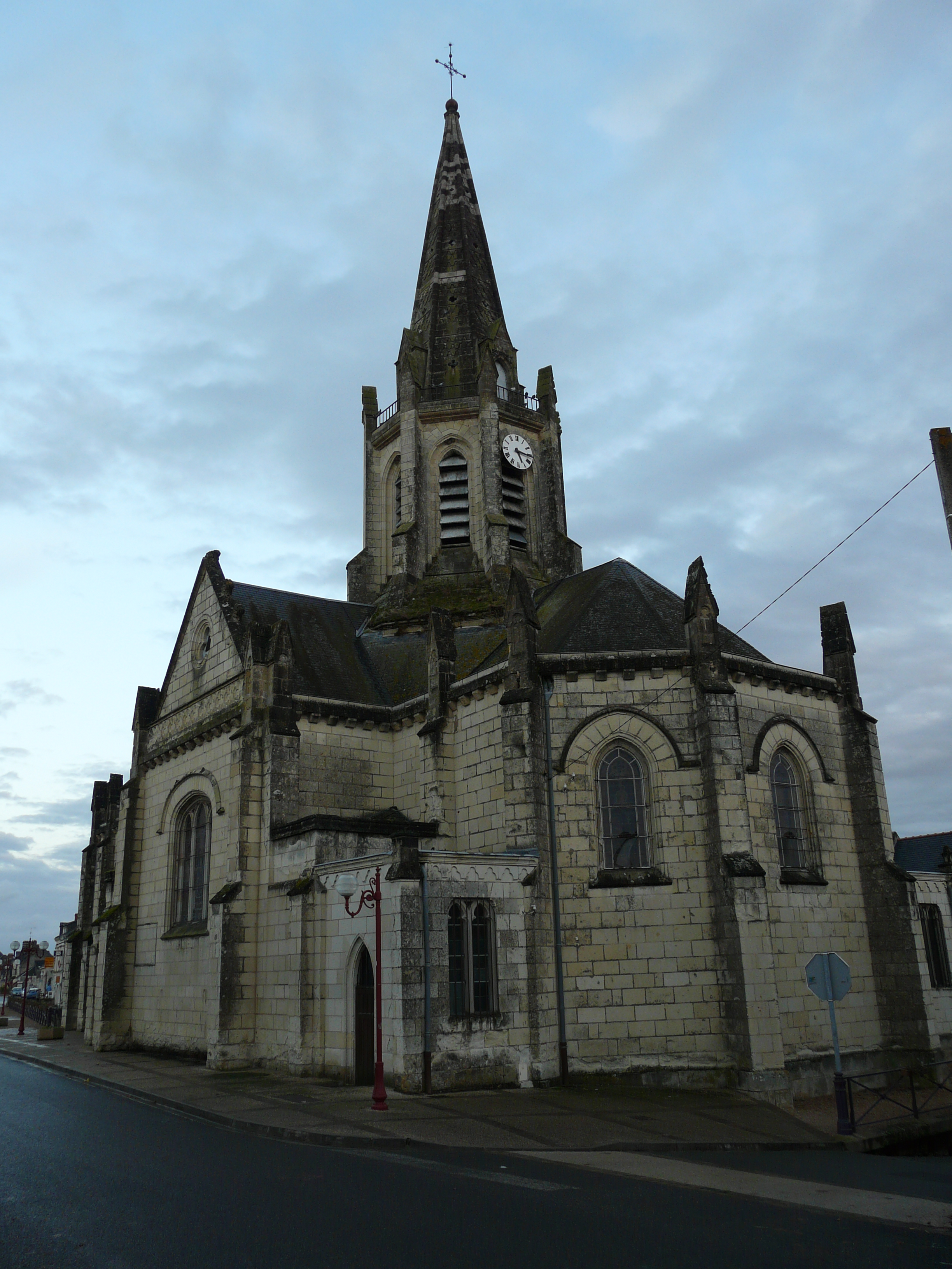 Church of Brehemont (Indre-et-Loire, France)